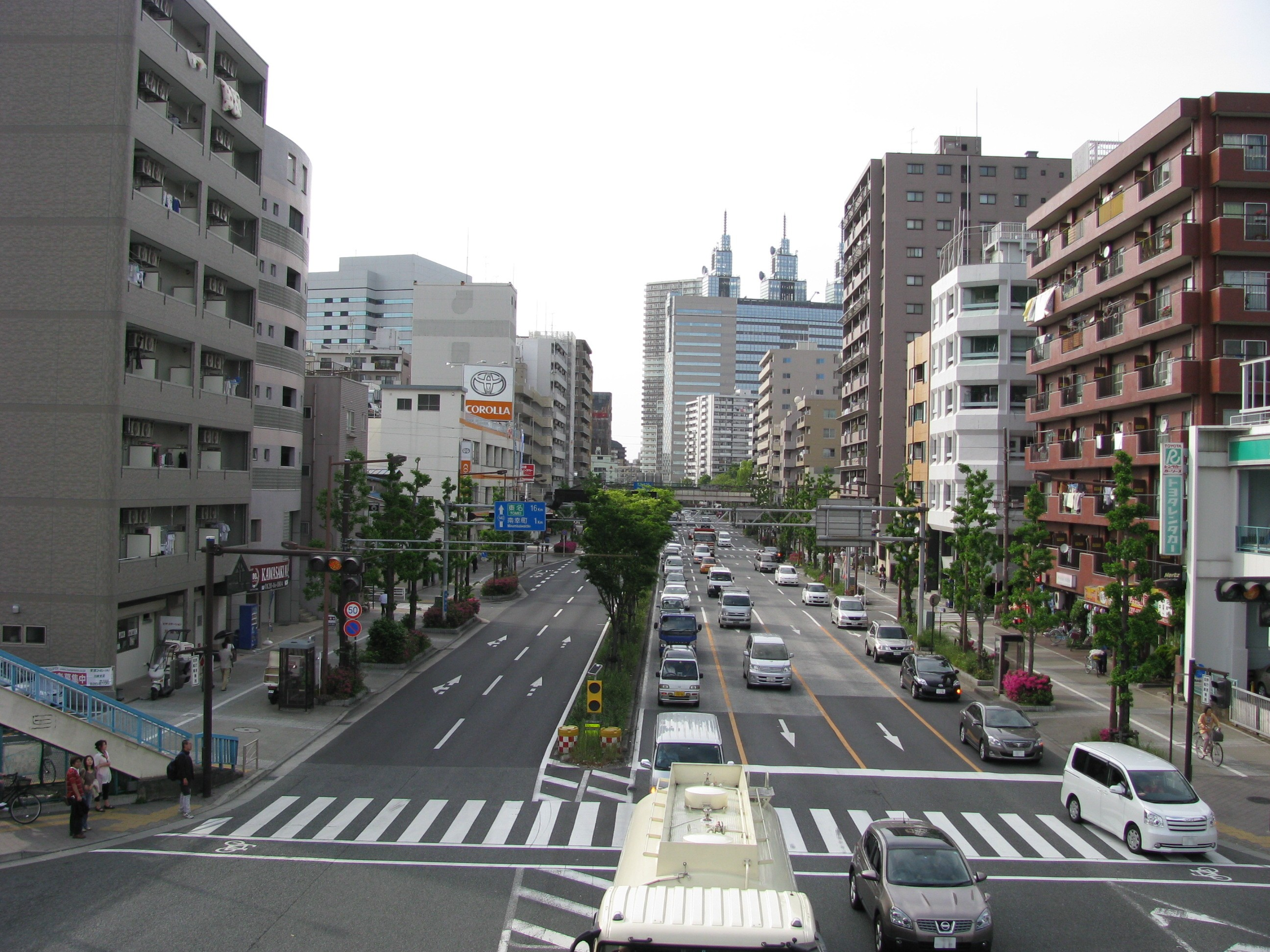 The Kanagawa Prefectural Route 140. This place is Motoki intersection in Kawasaki-ku, Kawasaki, Kanagawa, Japan.